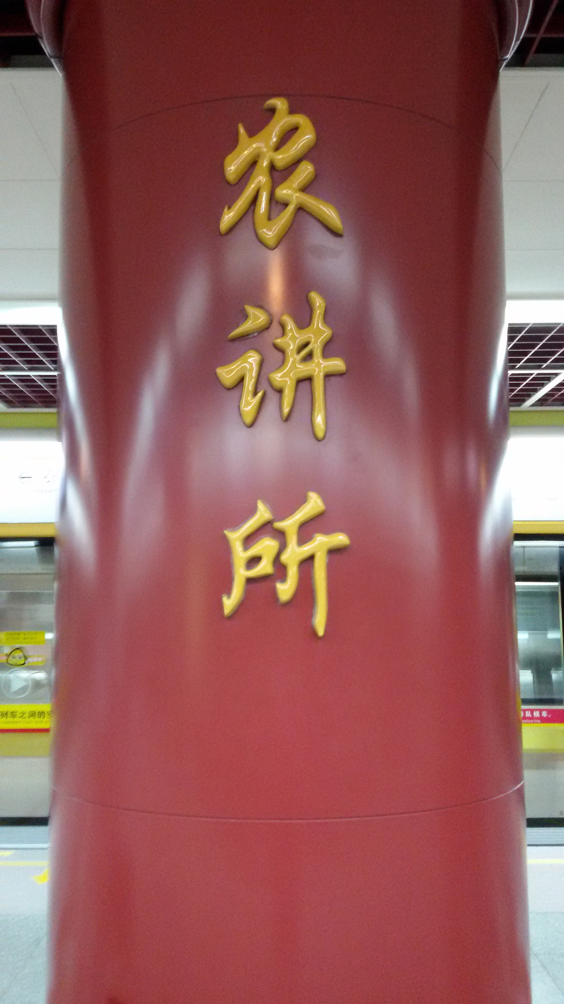 WORD for Peasant Movement Institute Station on PILLAR 粵語: 農講所站嘅柱上面啲字